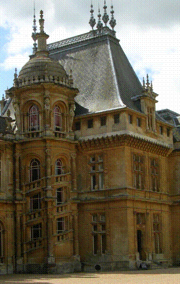 Waddesdon Manor staircase